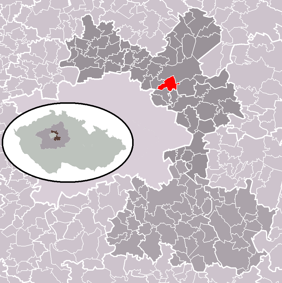 Location of Dřevčice municipality within Prague-East District and administrative area of Brandýs nad Labem-Stará Boleslav as a Municipality with Extended Competence.